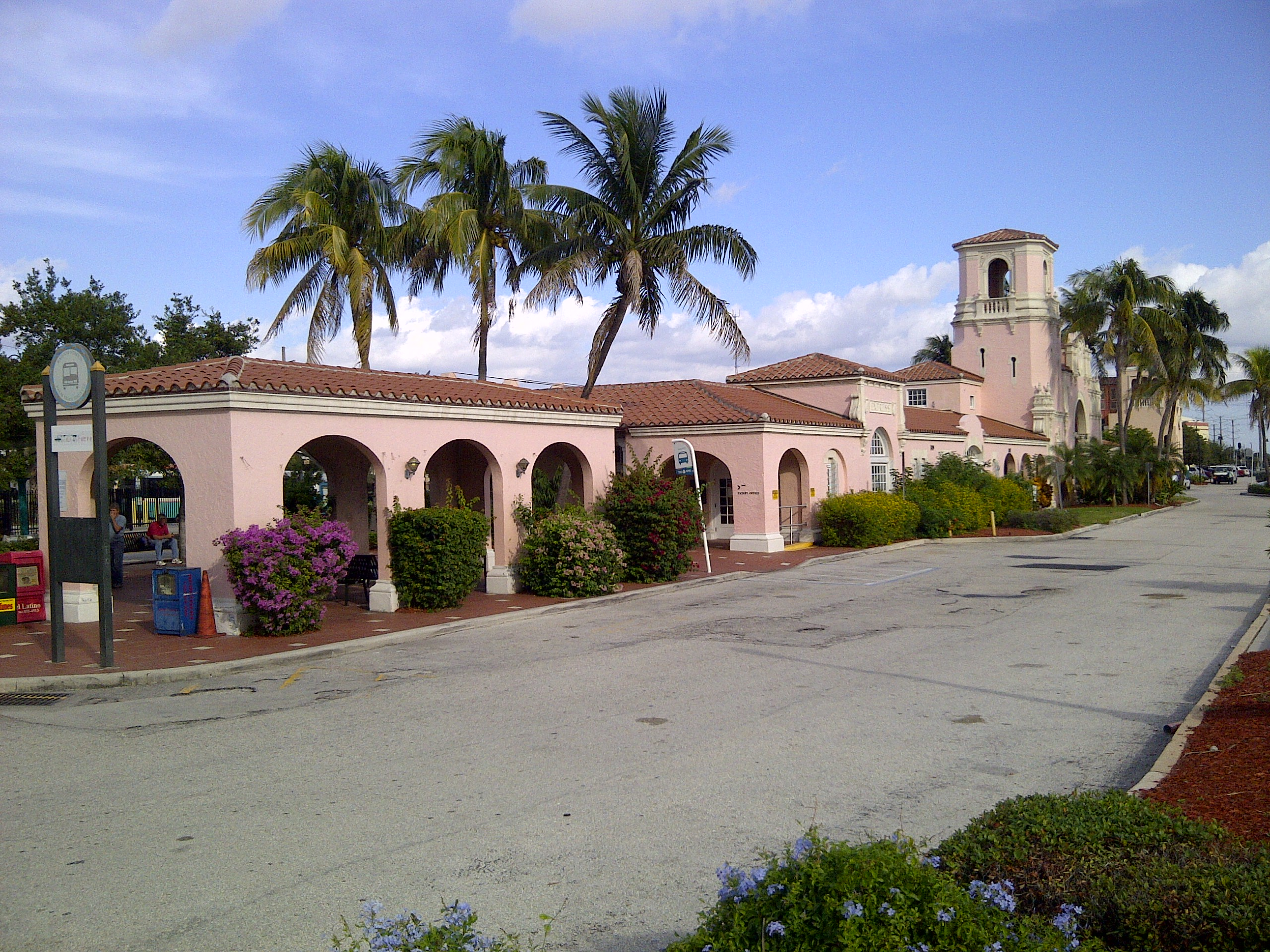 Southern view of West Palm Beach Seaboard Air Line Railway (now Amtrak) station